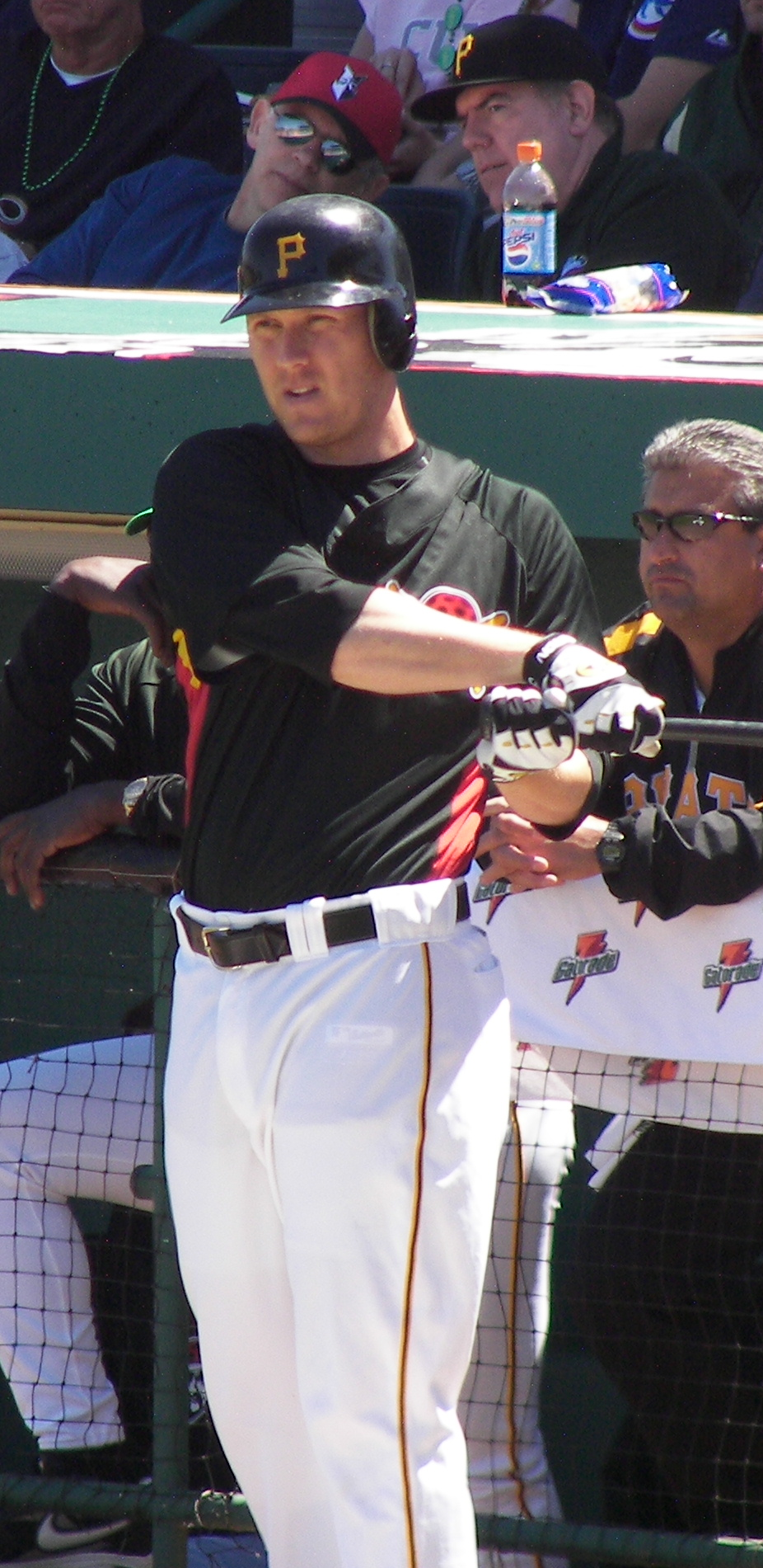 Pittsburgh Pirates outfielder Jason Bay during a Pirates/Minnesota Twins spring training game at McKechnie Field in Bradenton, Florida.